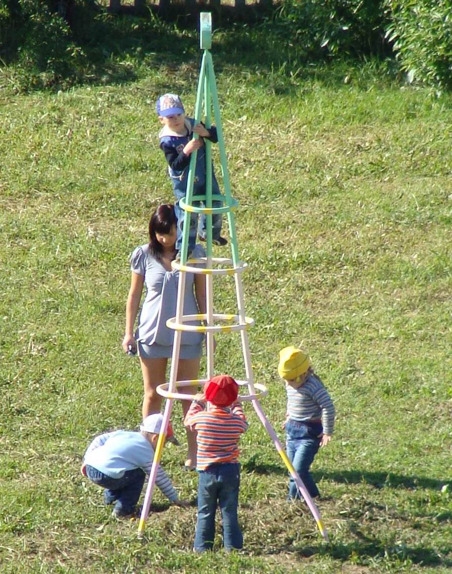 Kindergarten in Russia